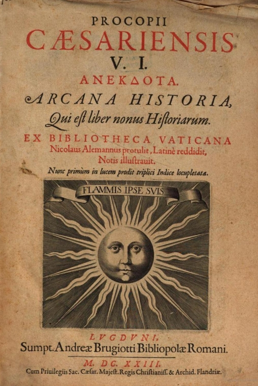 Title page of original edition of "Historia Arcana" of Procopius Caesariensis